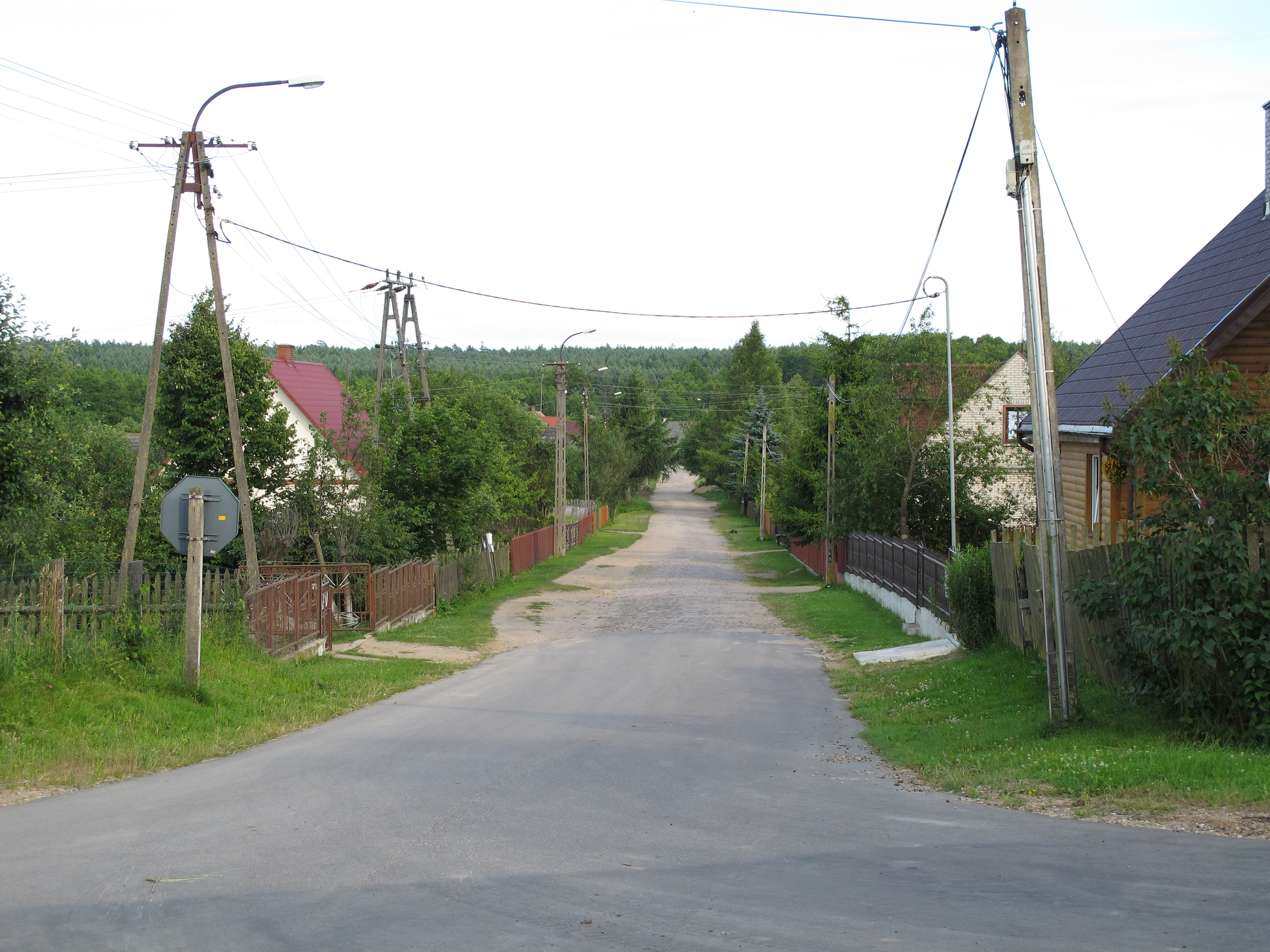 Łaźnisko village, gmina Szudziałowo, podlaskie, Poland